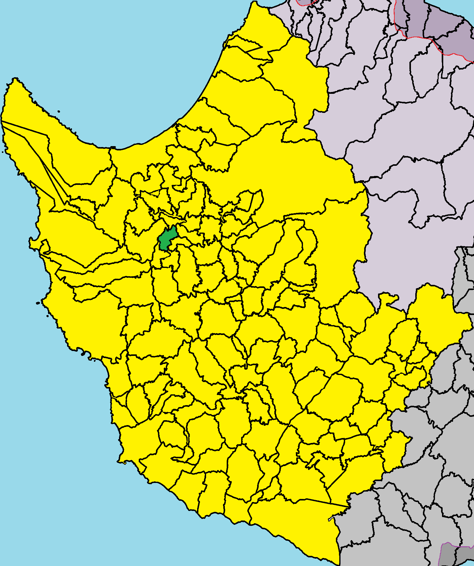 Kato Akourdhalia in Paphos District.